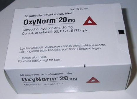 OxyNorm (oxycodone) 20mg -tablets